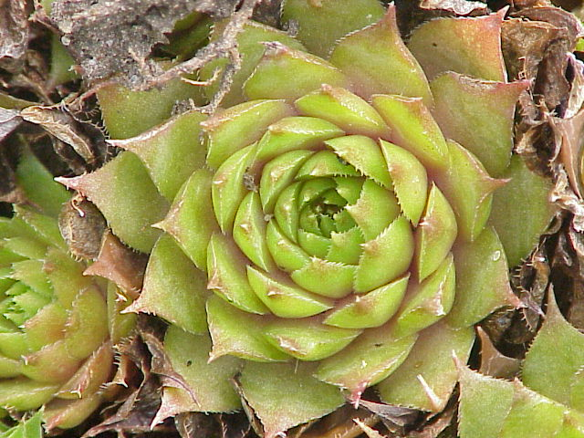 Species: Sempervivum tectorum Family: Crassulaceae Image No. 1